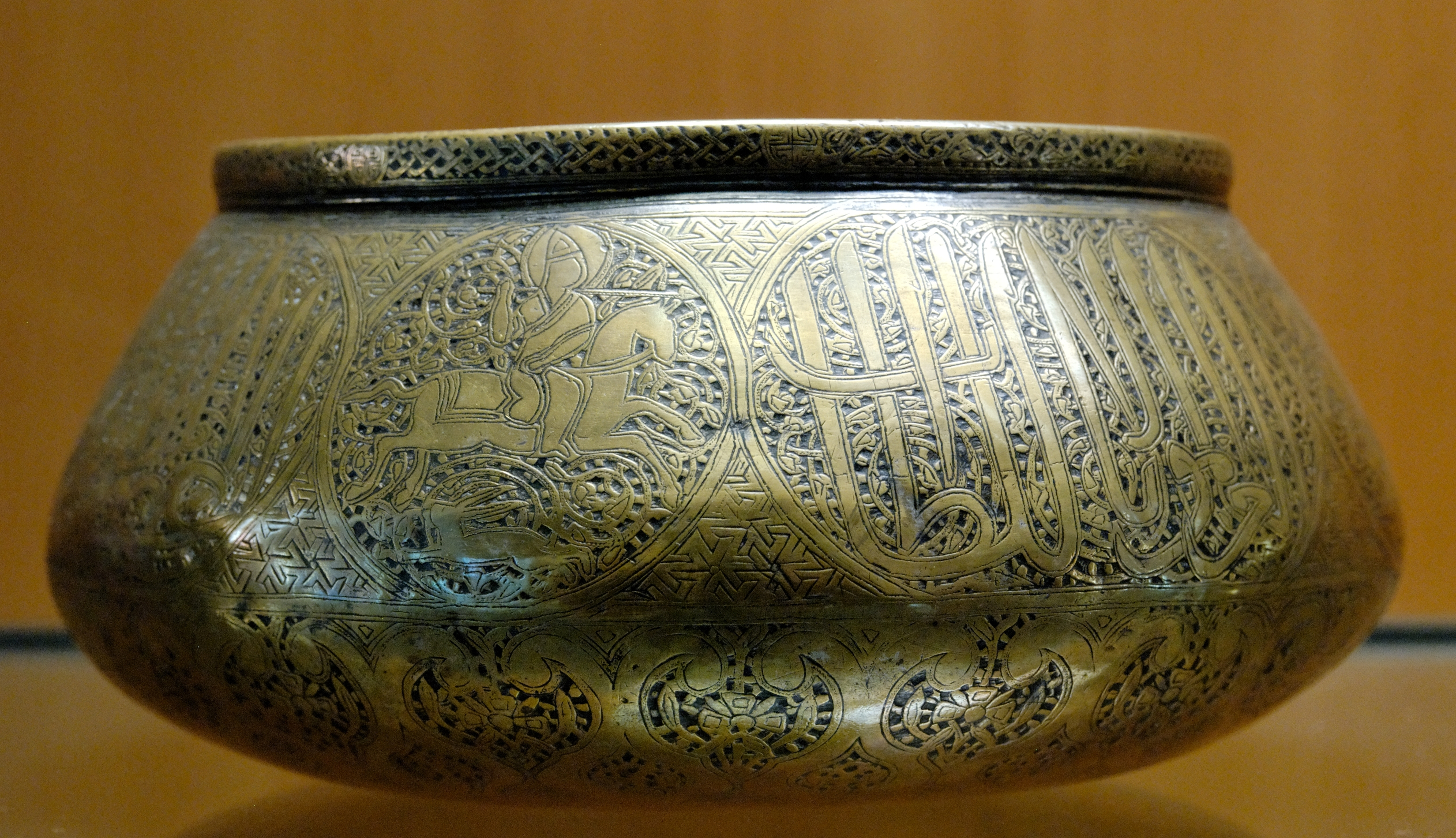 Hunting scenes. Hammered and engraved copper alloy inlaid with silver and black paste, Ilkhanid art, 1330–1360. From Fars, Iran.